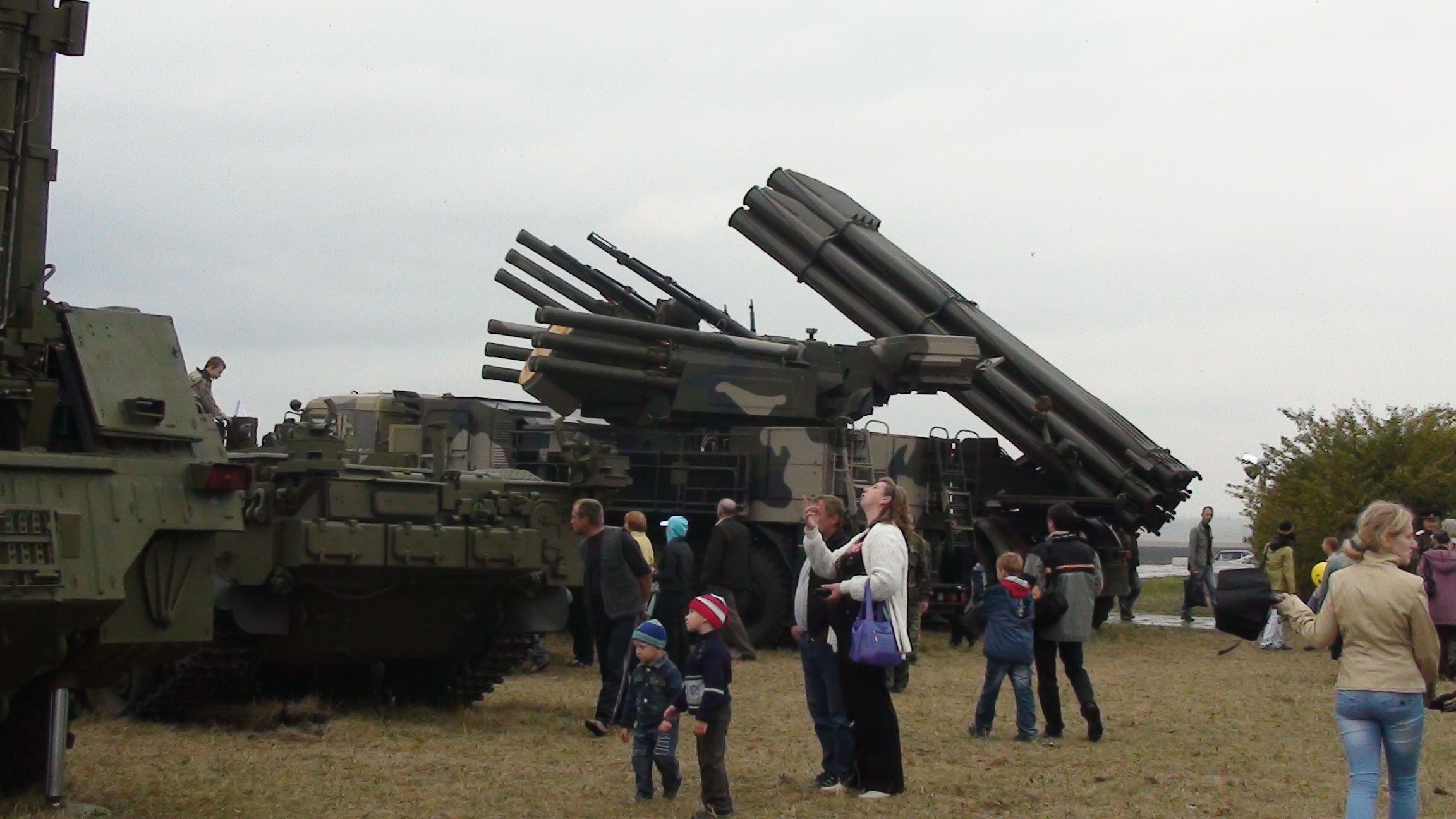 Kulikovo-pole2